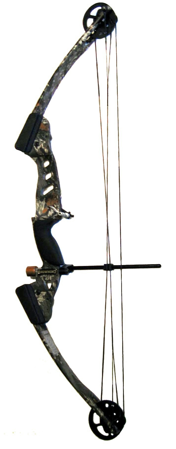 I, Ewok Slayer, Created this Image. Compound Bow. Full Size. Orig. 1300 kb. Cropped and Photoshoped.